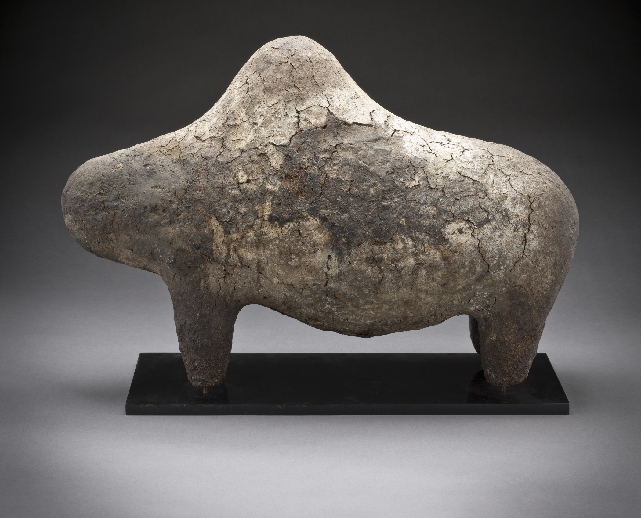 Africa, Republic of Mali, Bamana peoples, 20th century Sculpture Wood, bark, clay, blood conglomerate Height: 26 in. (66 cm) Gift of the Gerard Junior Foundation (M.90.7) African Art